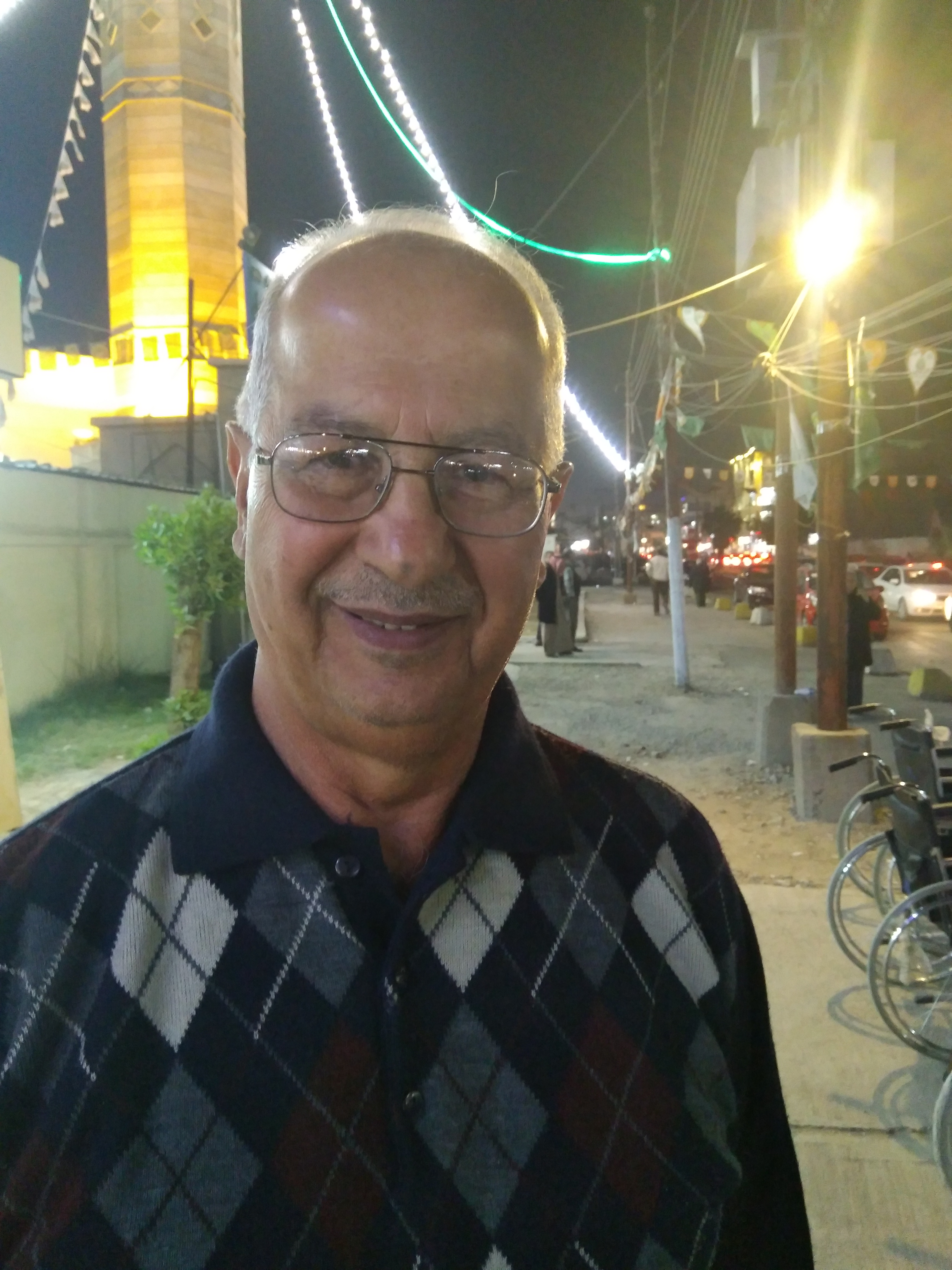 Anwar Jassam, former Iraqi footballer and coach